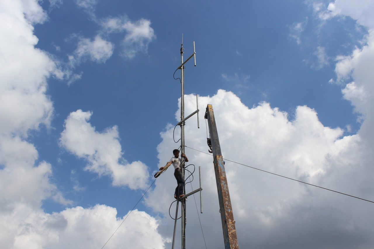 A man working on an antenna for a Syrnet radio network relay in Syria.